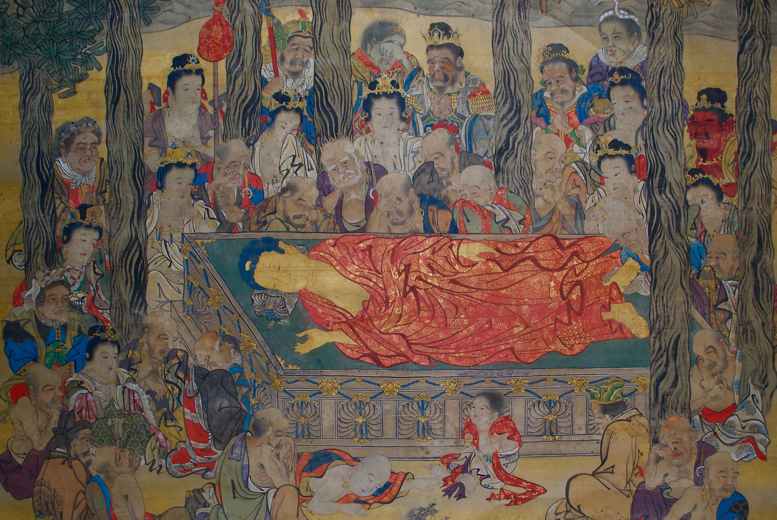 Detail of Butsu nehan-zu by Kakizaki Hakyō, Kōryū-ji, Hakodate, Hokkaidō, Japan